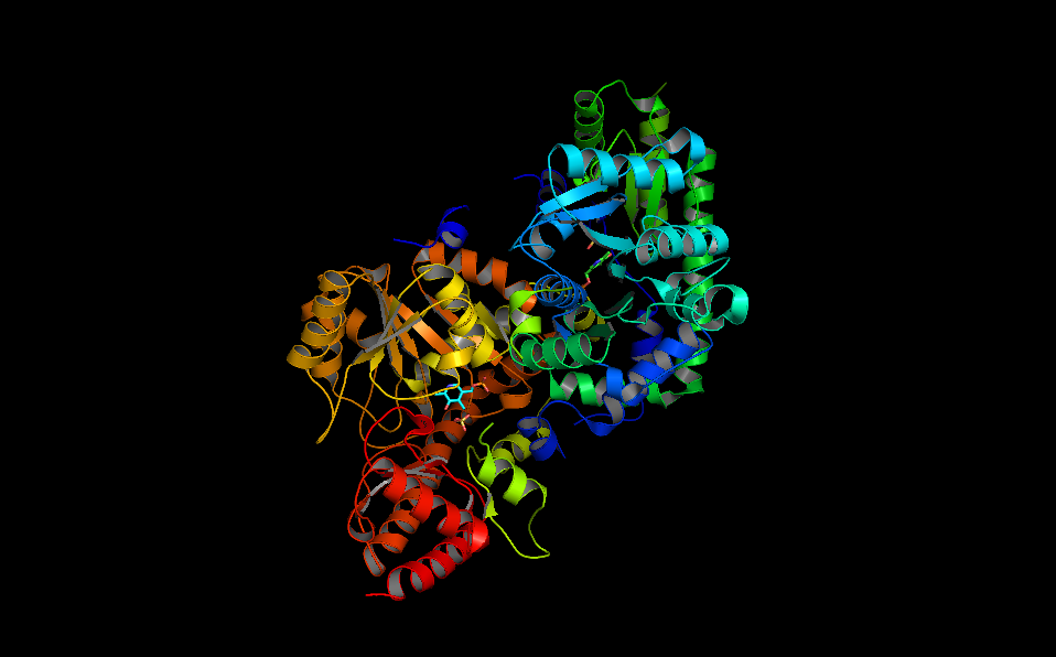 pymol image of complex of PLP and ACCsynthase